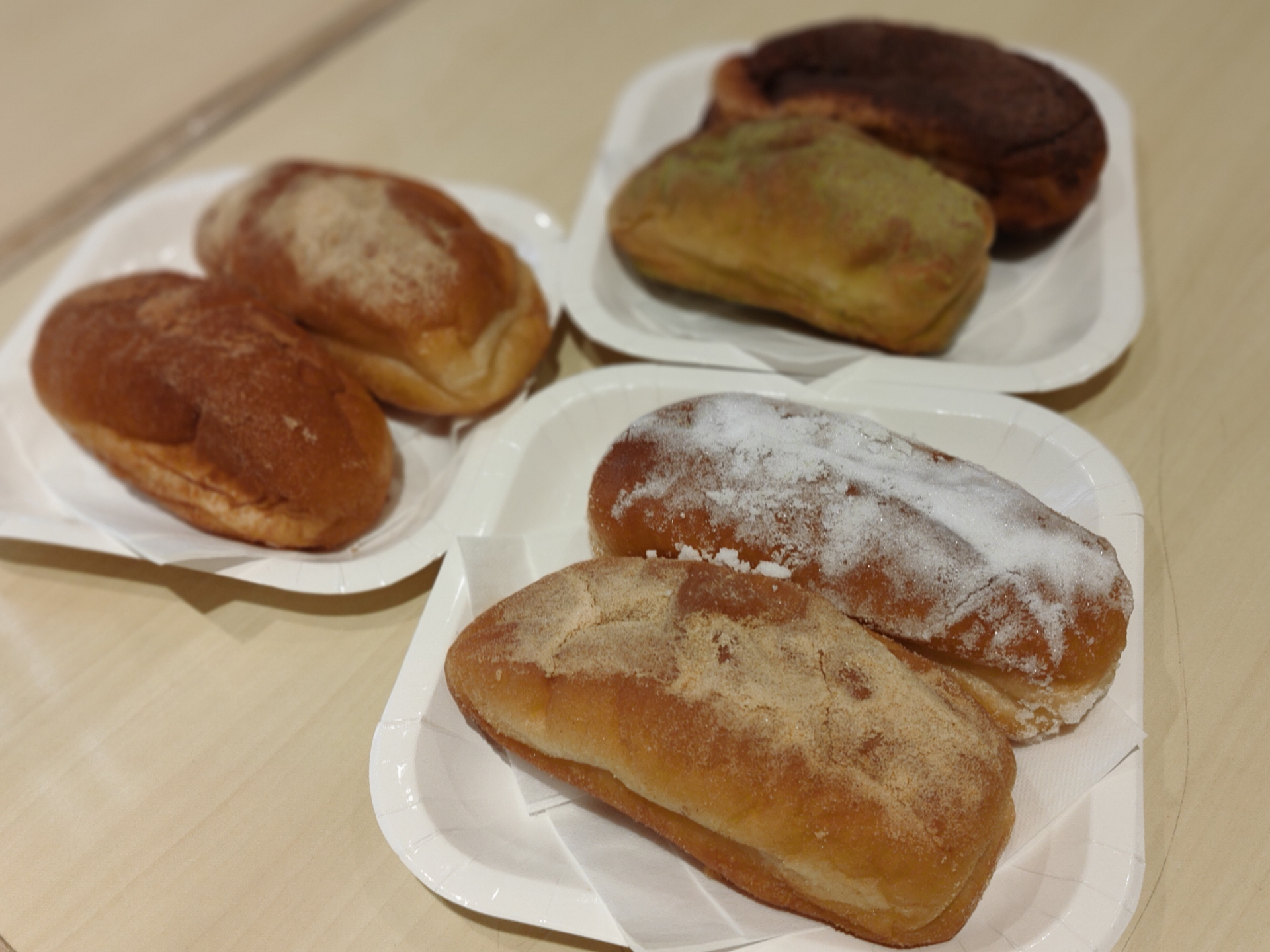 Japanese fried bread